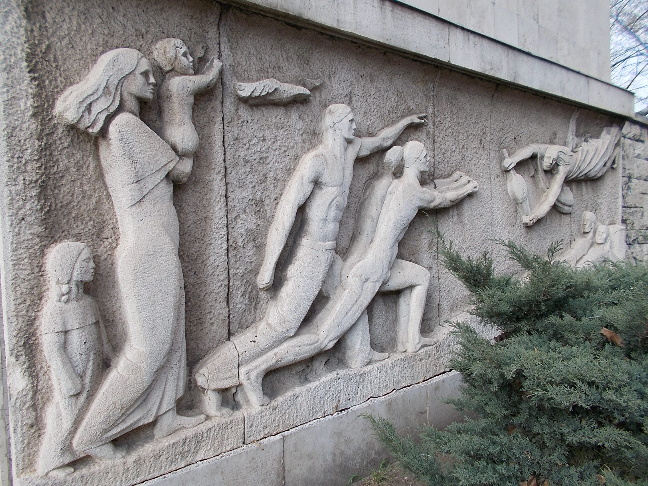 Radium therapy. Architectural relief. Modern, limestone sculpture by Tibor Vilt (1938). - Dologház Street, Népszínház neighbourhood, Budapest District VIII.